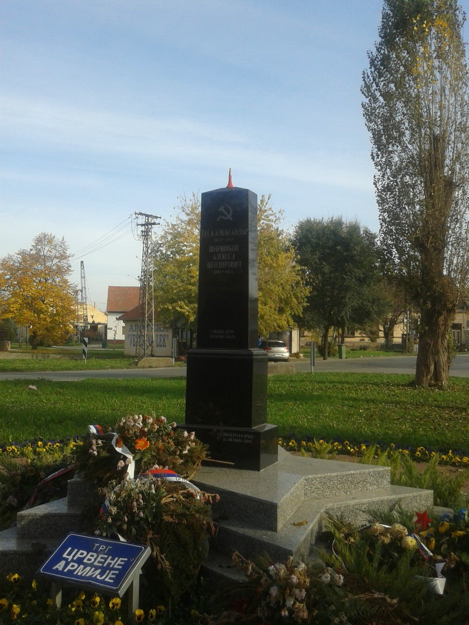 Monument to the Red Army soldiers in Vrbas